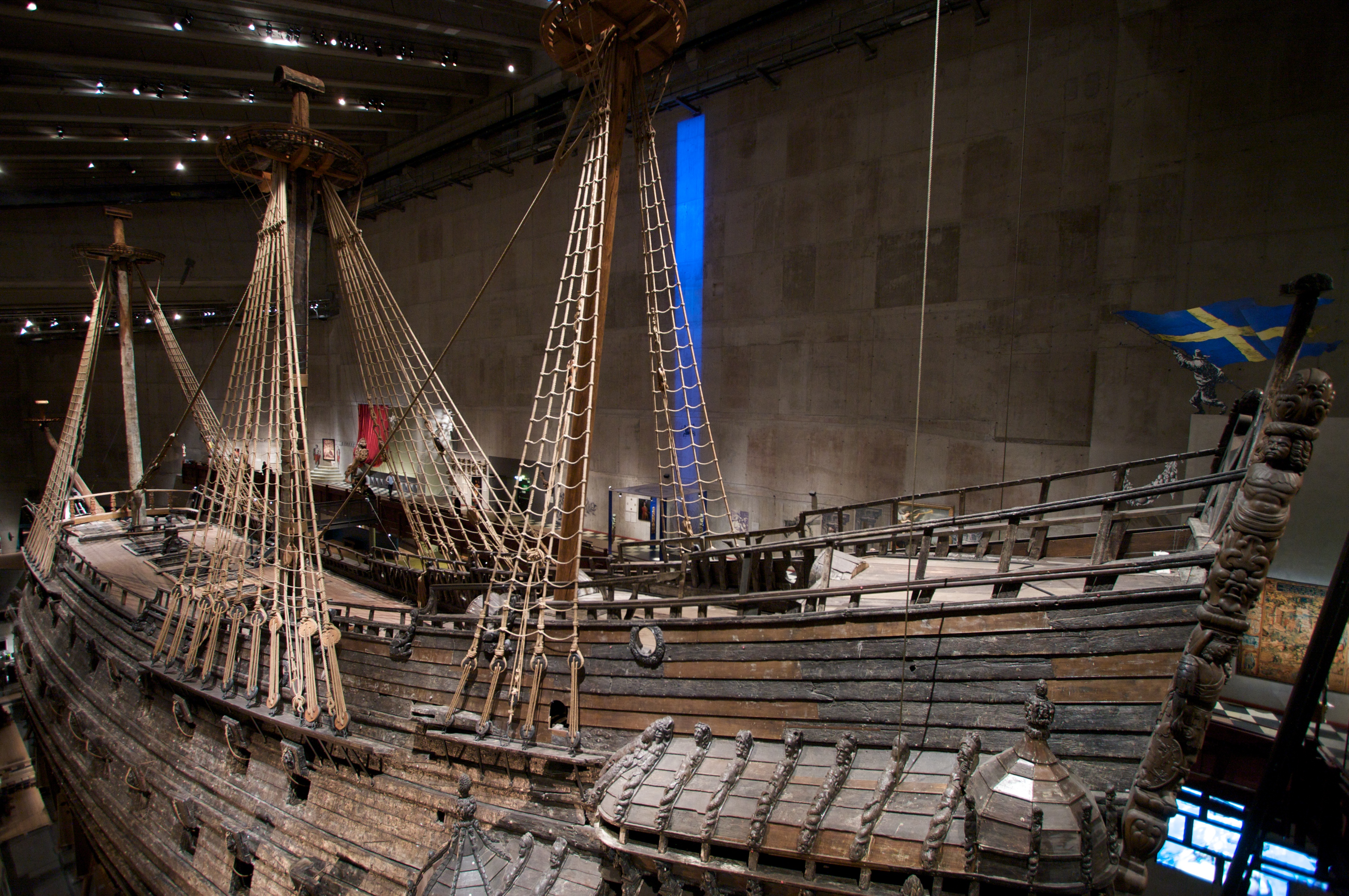 A view of the top deck of the Vasa - a 17th century Swedish warship that sank on her maiden voyage.